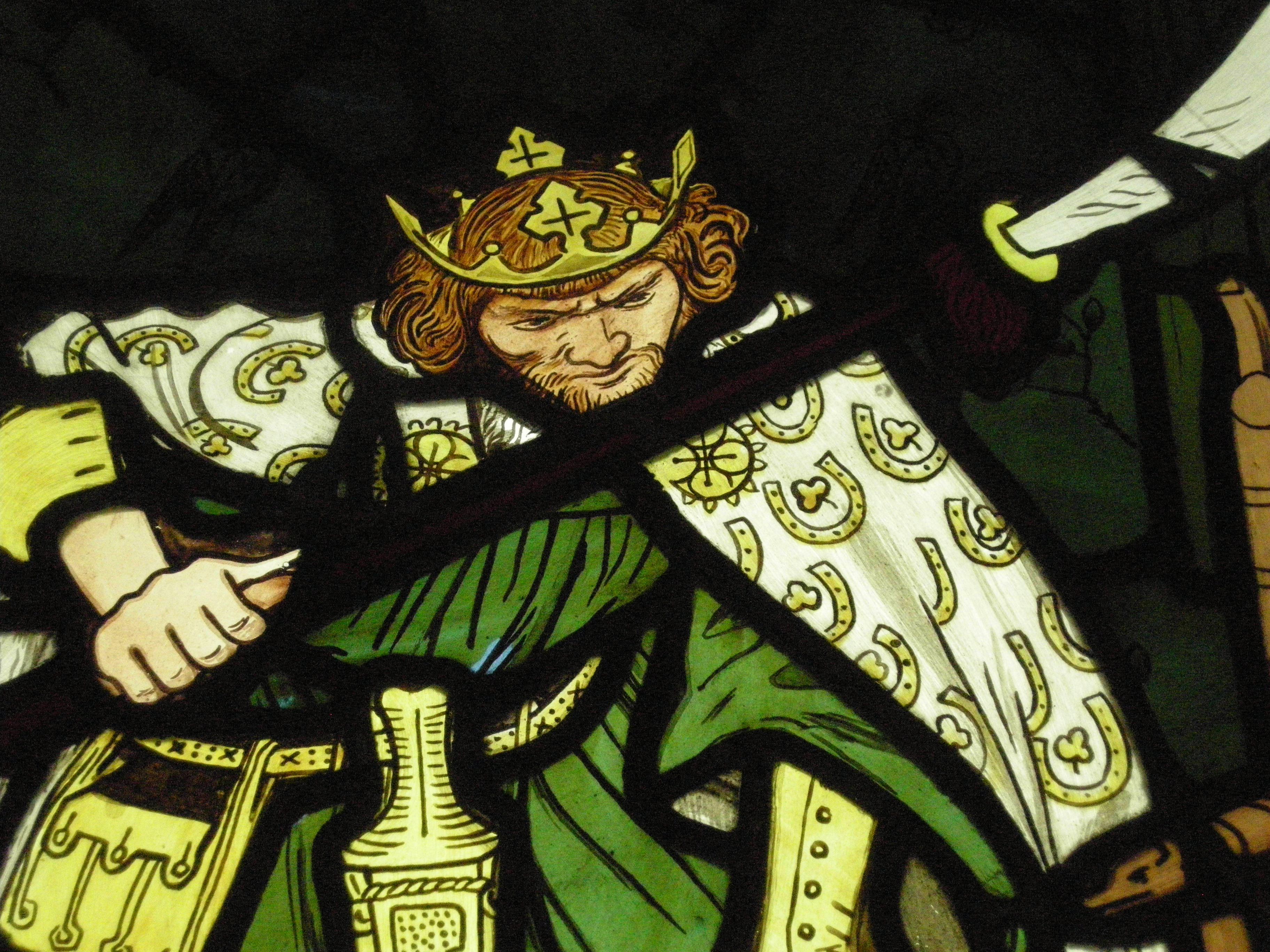 Detail from window of King Mark of Cornwall illustrating "Death of Sir Tristram", designed by Ford Madox Brown (1821-93) for William Morris, from building in Bradford area. Now in Stained Glass gallery, Cliffe Castle Museum, Keighley, West Yorkshire, England.